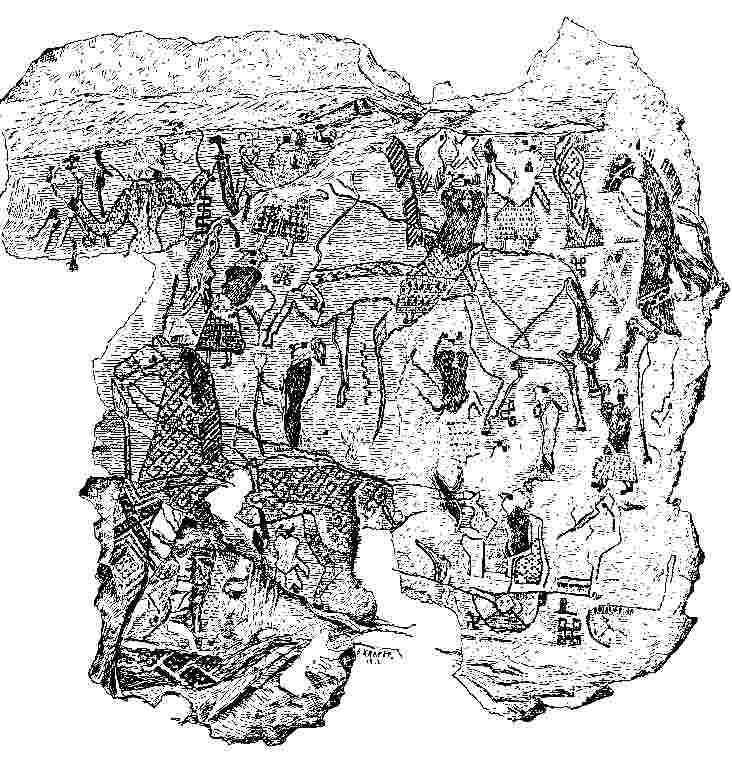 Tapestry fragment from the Oseberg ship find.